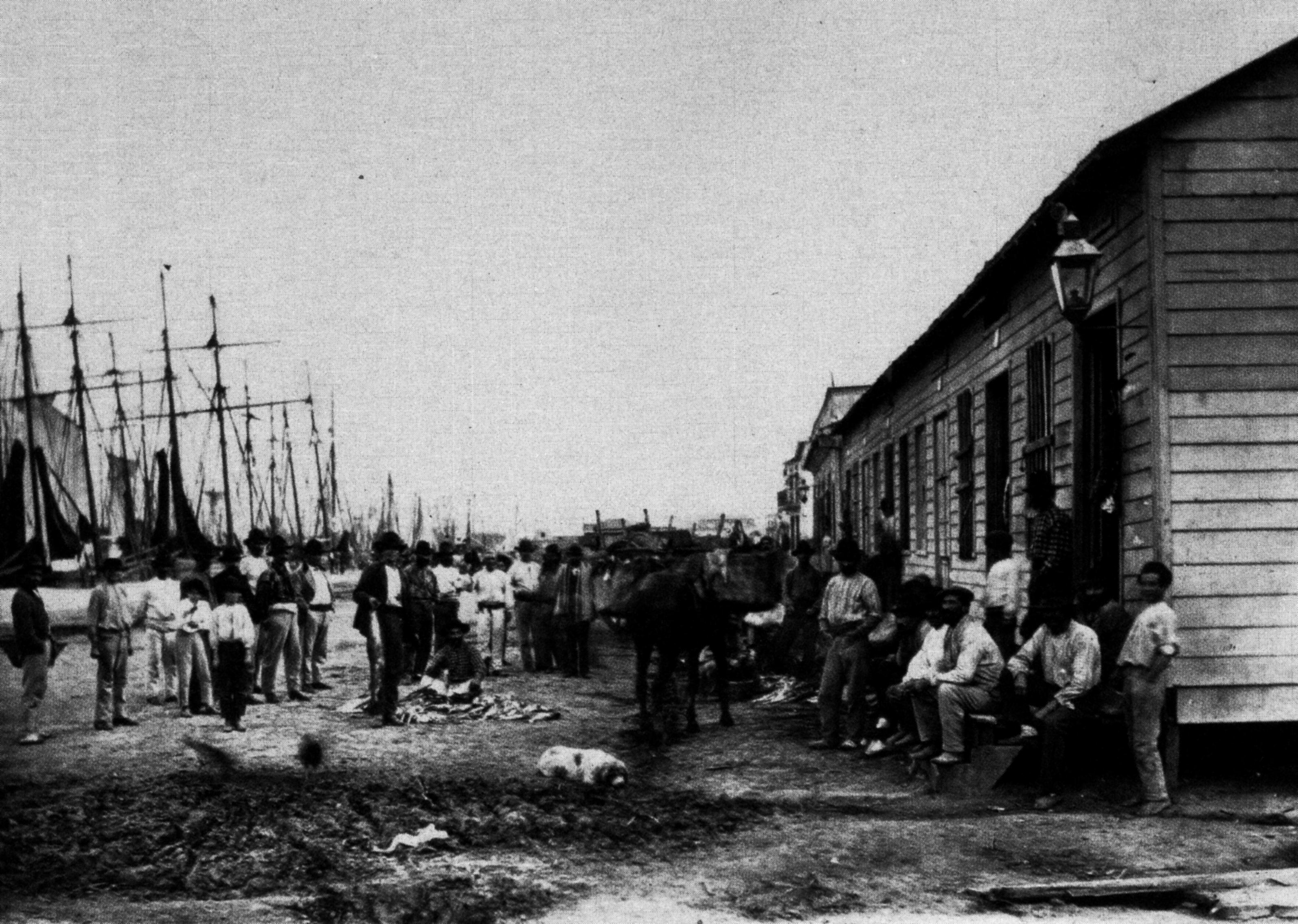 Port of Buenos Aires, located at the margin of Riachuelo (Matanza River).